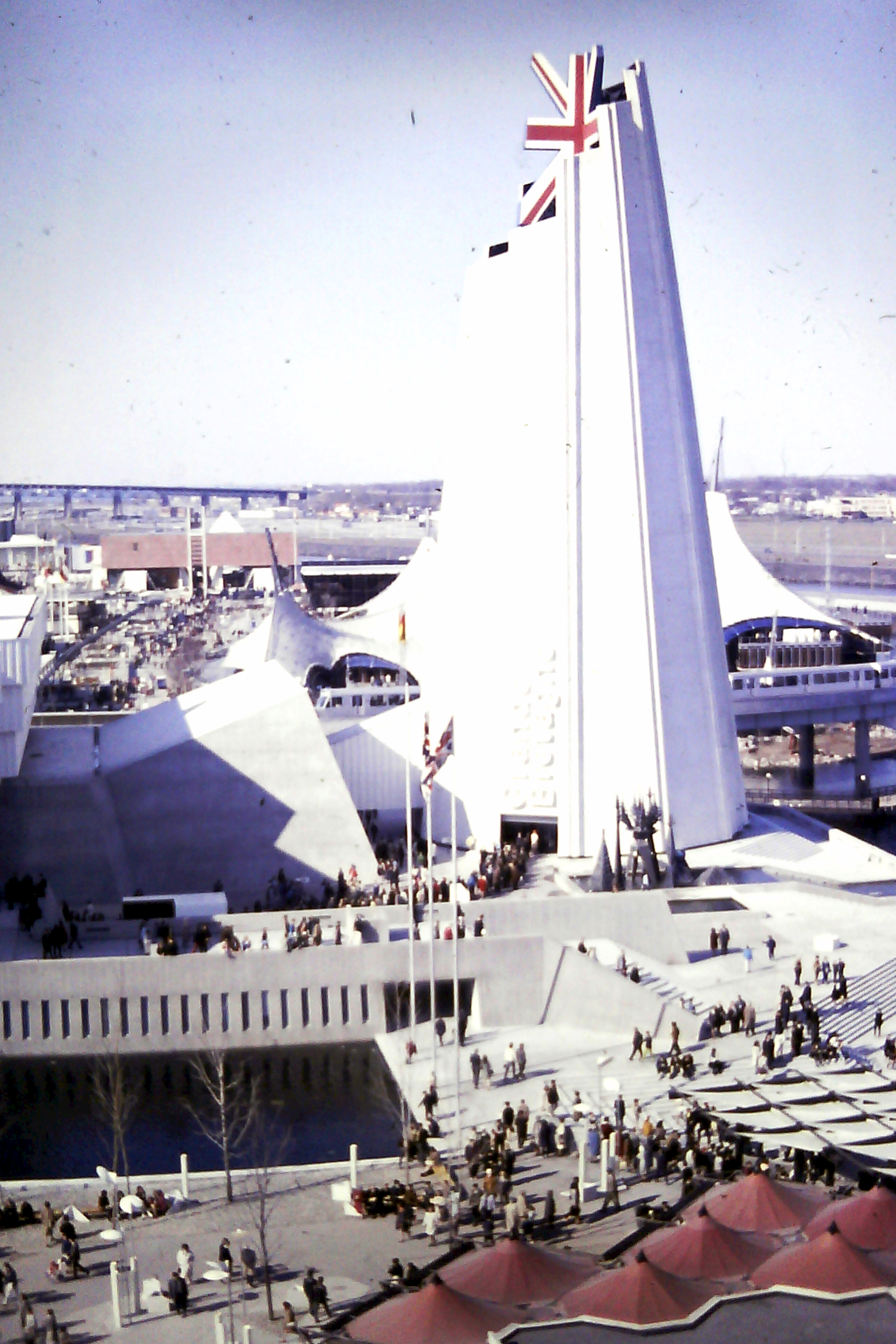 Great Britain pavilion at Expo 67 - This picture was taken by my father at Expo 67 (I was -7 years old at the time). I scanned these pictures from slides.